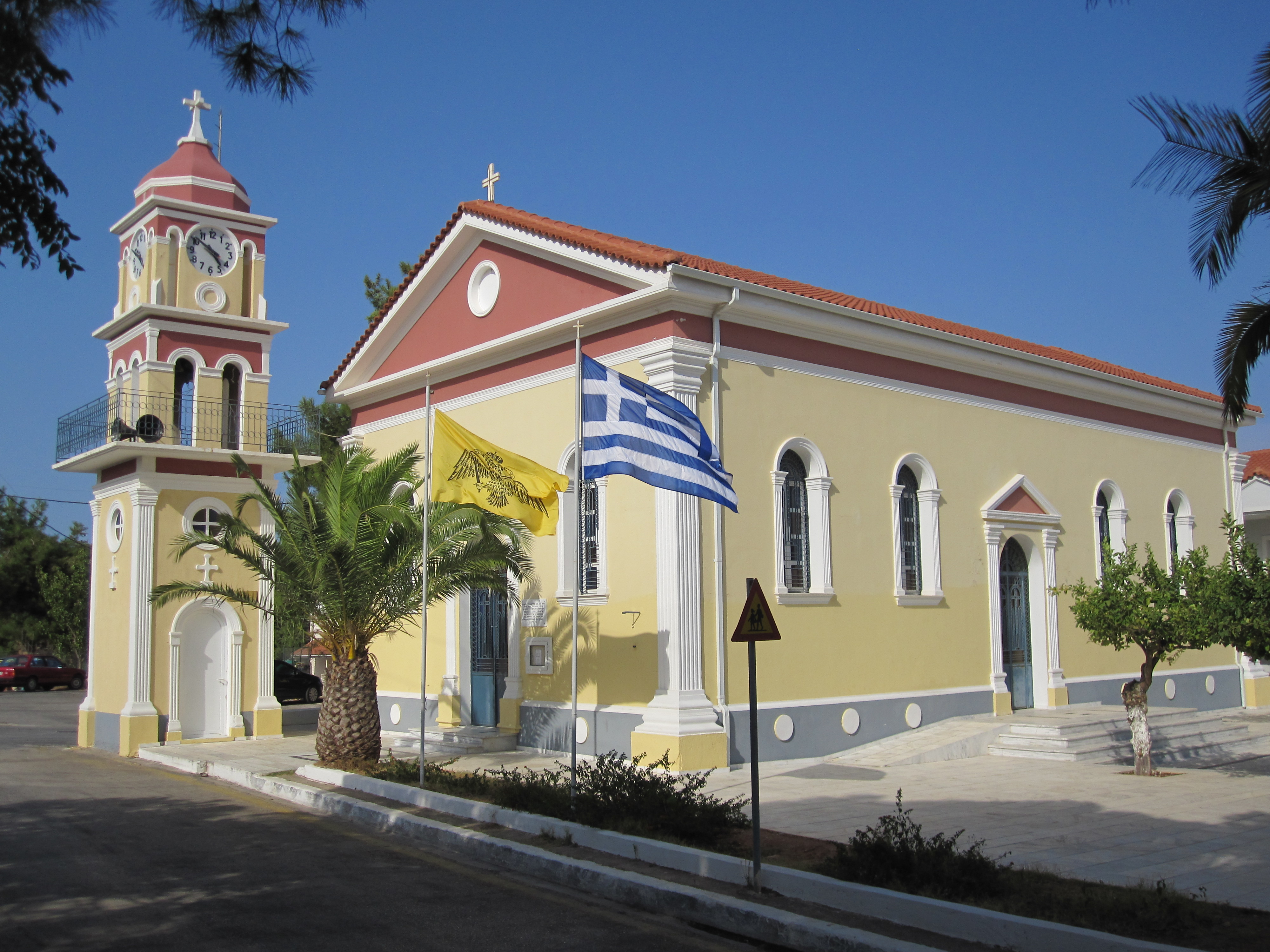 St. Gerasimos church in Skala, Kefalonia. Greece